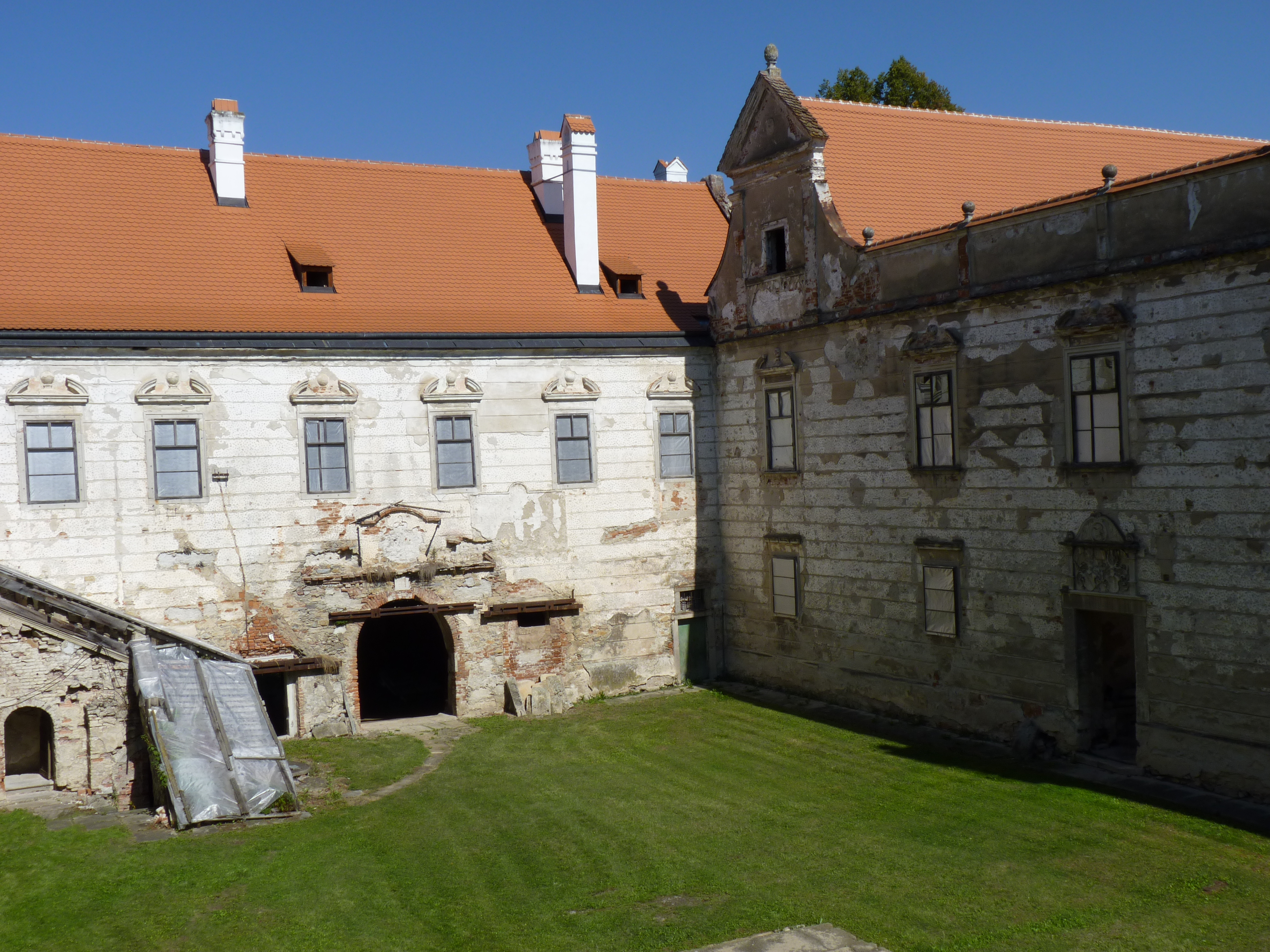 Uherčice Castle, Znojmo District, South Moravian Region, Czech Republic